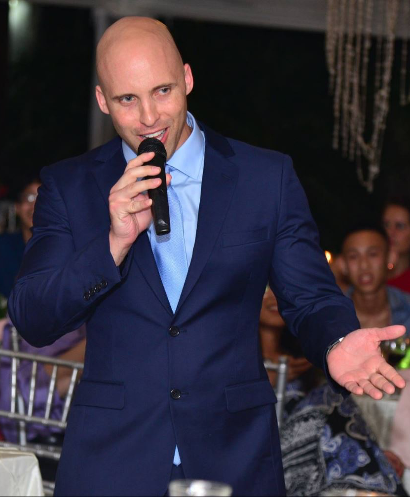 David Packouz, inventor and former arms dealer